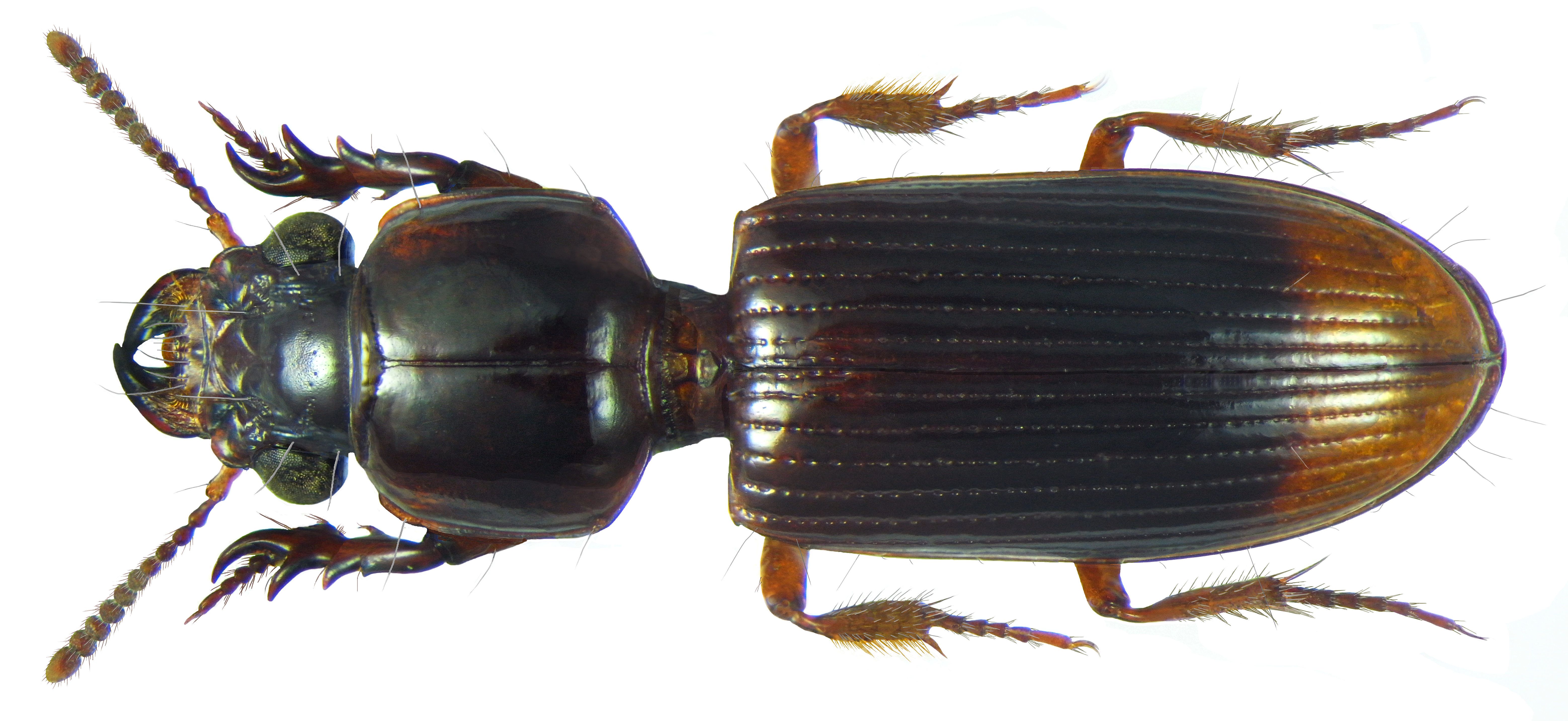 Pseudoclivina grandis (Dejean, 1826) Family: Carabidae Size: 9,2 mm Origin: spread all over Africa Location: Senegal, M`Bour, Club Aldiana leg. U.Schmidt, 18.-20.X.1992; det. P.Bulirsch, 2011 Photo: U.Schmidt, 2013